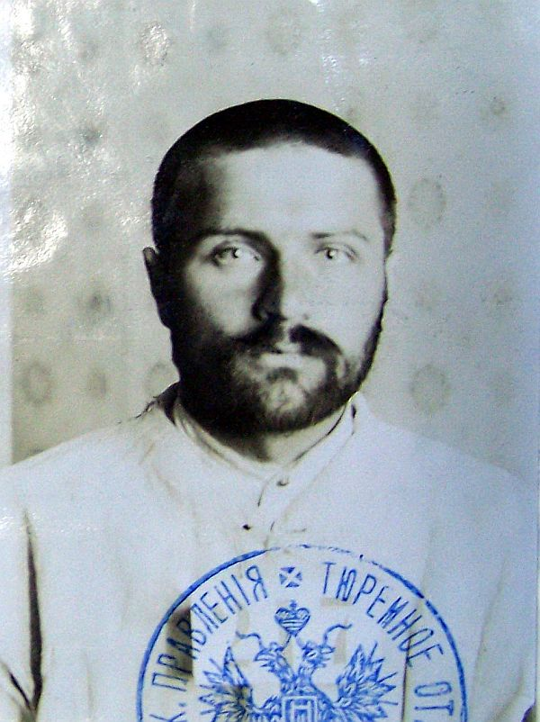 Dmitriy Pyanykh in a jail, son of Ivan Pyanykh, a member of the Second Russian State Duma from Kursk Governorate in 1907